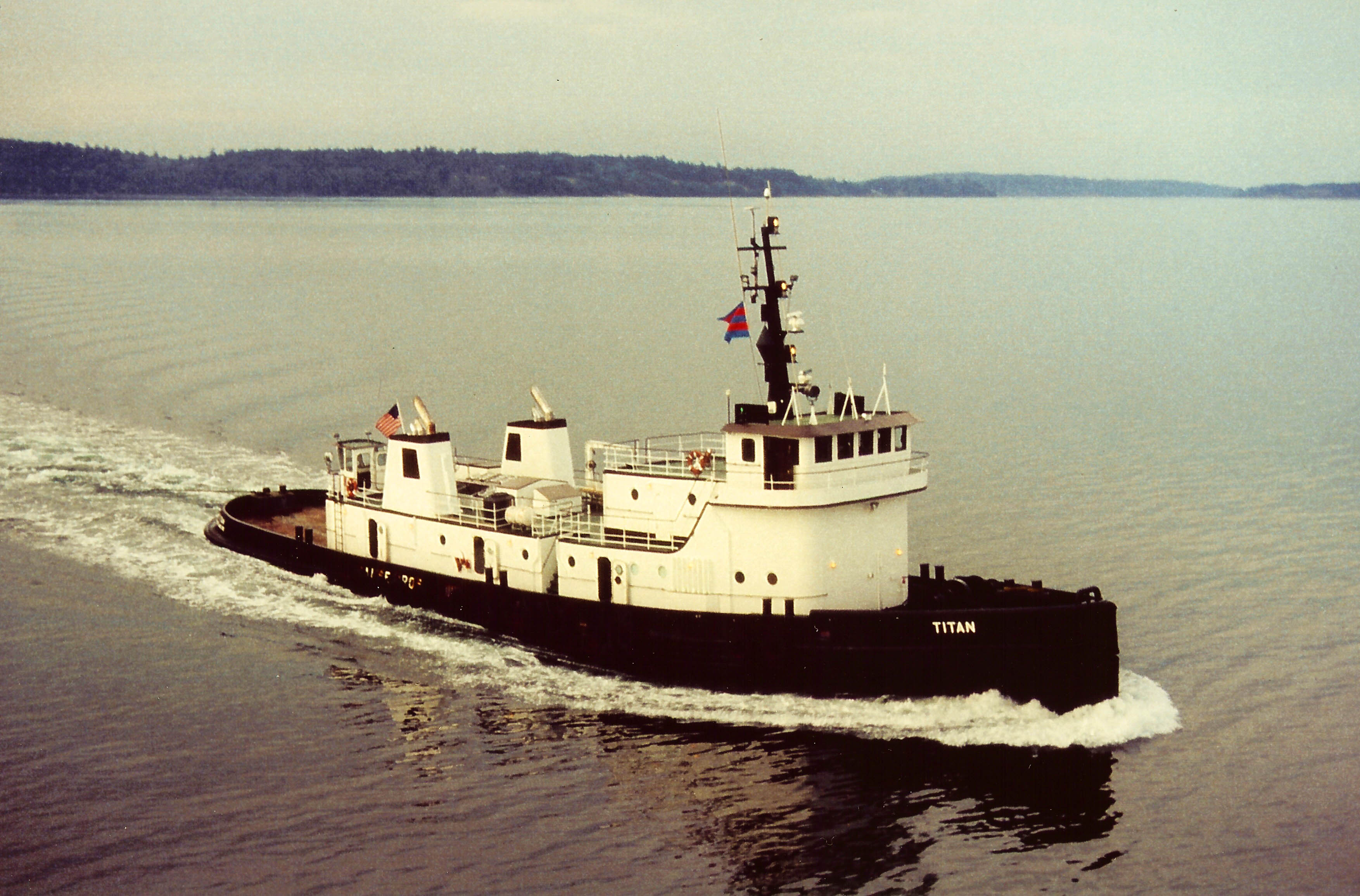 From Sause Bros., Inc, the current owner of the tugboat.